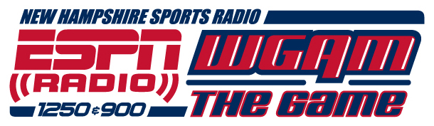 Current WGAM/WGHM logo ("The Game")